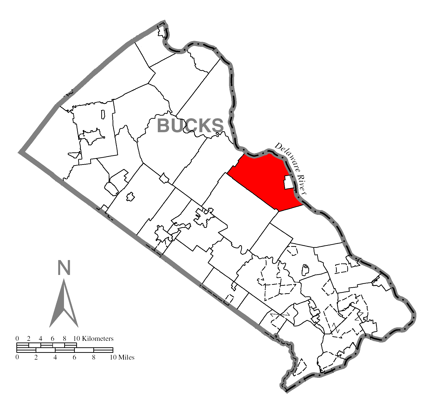 A map of Bucks County showing Solebury Township, Pennsylvania (alternate) highlighted on the map.